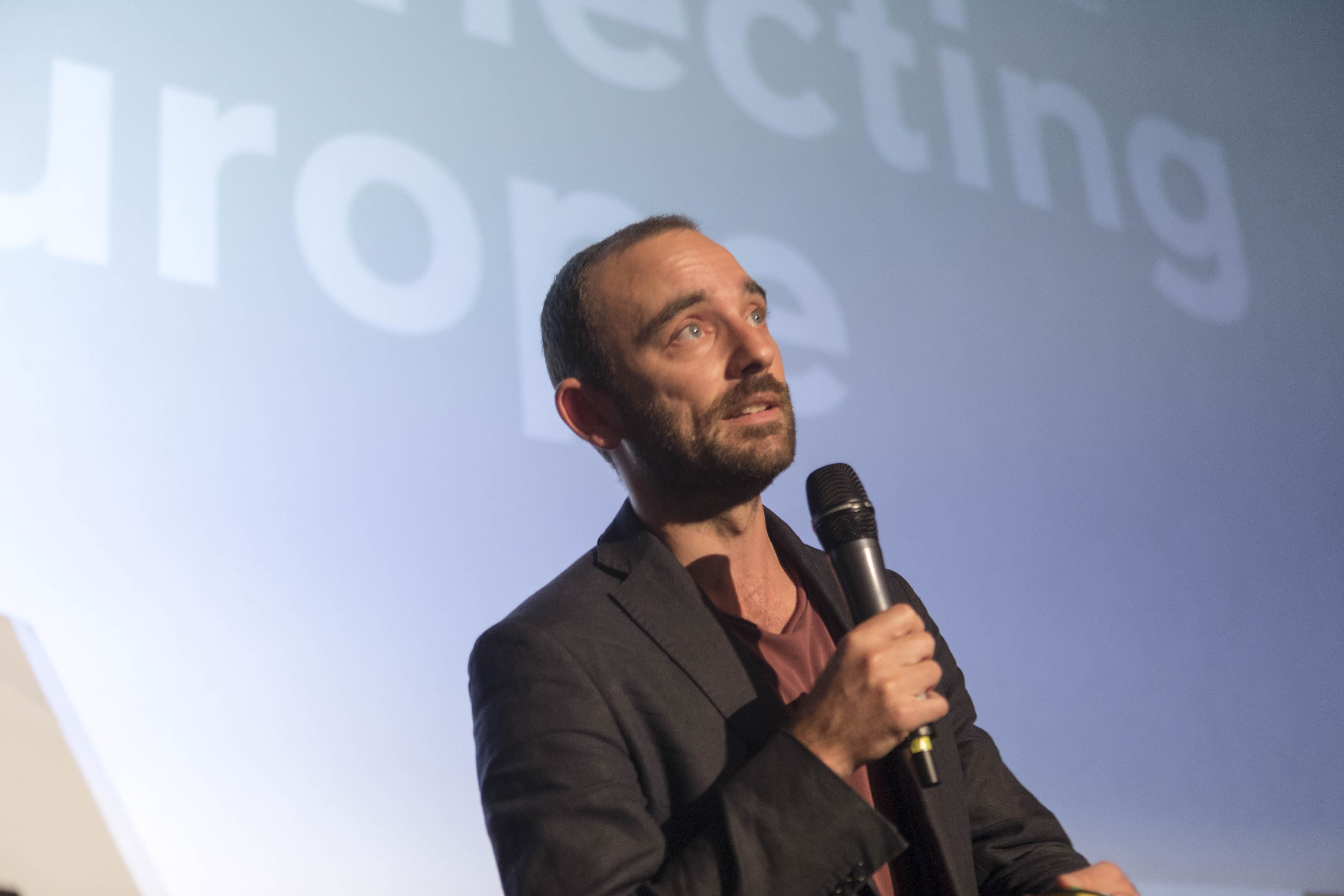 re:publica Thessaloniki 2017 - Day 1 Source: re:publica/Vassilis Ververidis